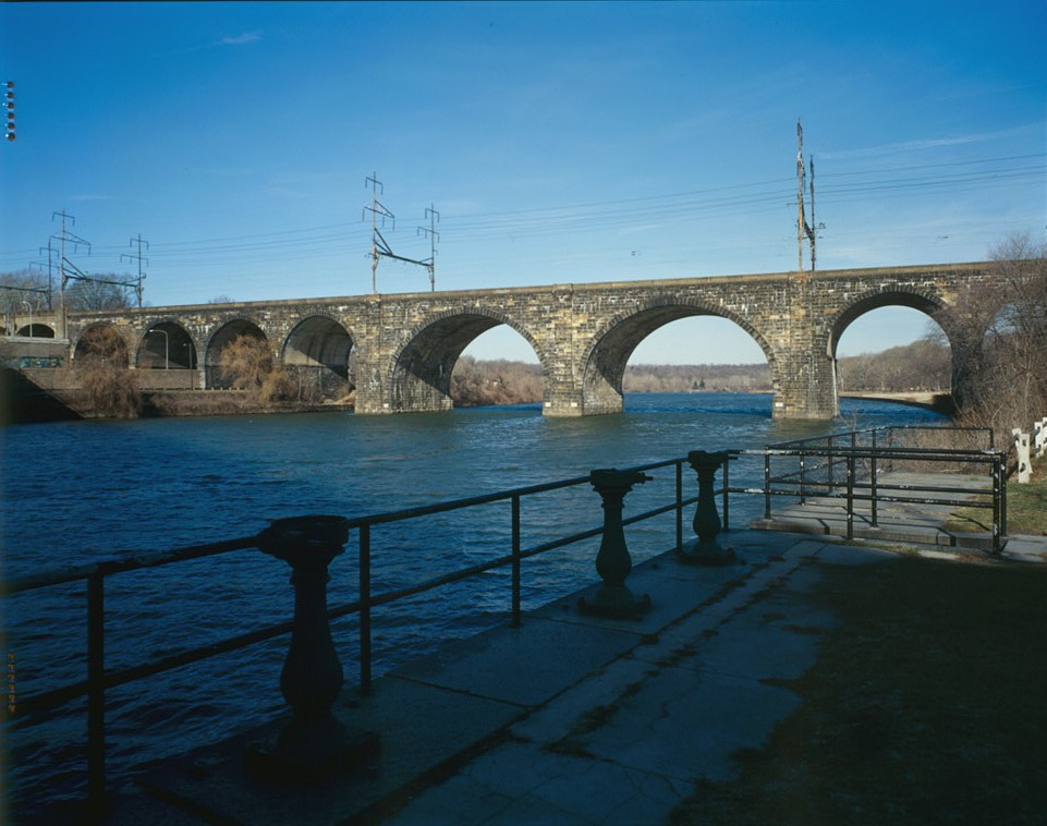 Pennsylvania Railroad, Connecting Railway, Schuylkill River Bridge, Fairmount Park, Philadelphia, Pennsylvania; "Overview from east bank of Schuylkill River, looking north."